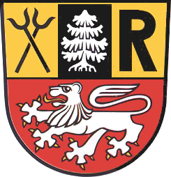 Coat of Arms of Masserberg